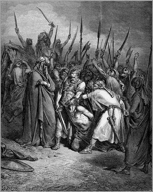 Gustave Doré, Death of Agag, La Sainte Bible, 1866